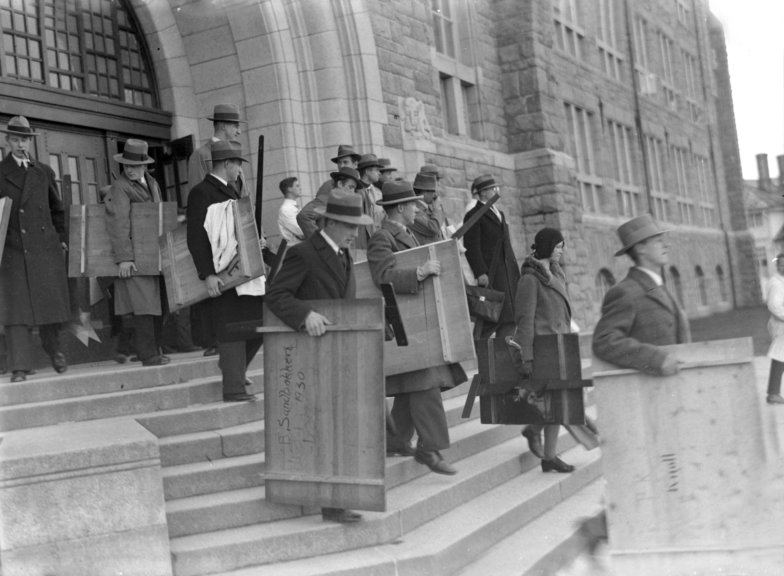 one of the architecture students, Tønnes Søyland, had critized the curricula - in an architecture journal - and was relegated for three months. His fellow students then took their drawing boards and went on strike. Maja Melandsø to the right in the picture